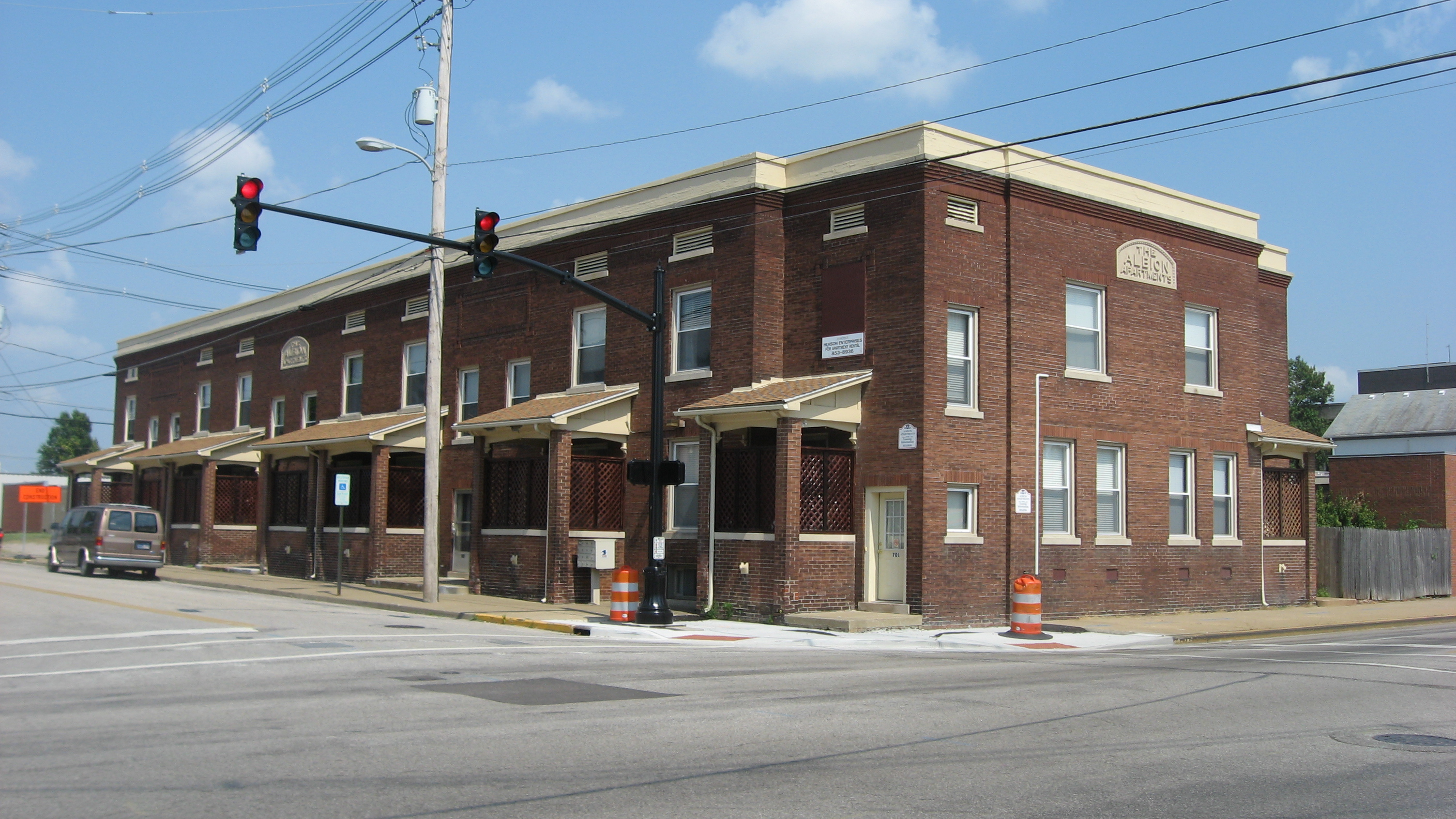 Front and southwestern side of the Albion Flats, located at 701 Court Street in Evansville, Indiana, United States. Built in 1911, it is listed on the National Register of Historic Places.